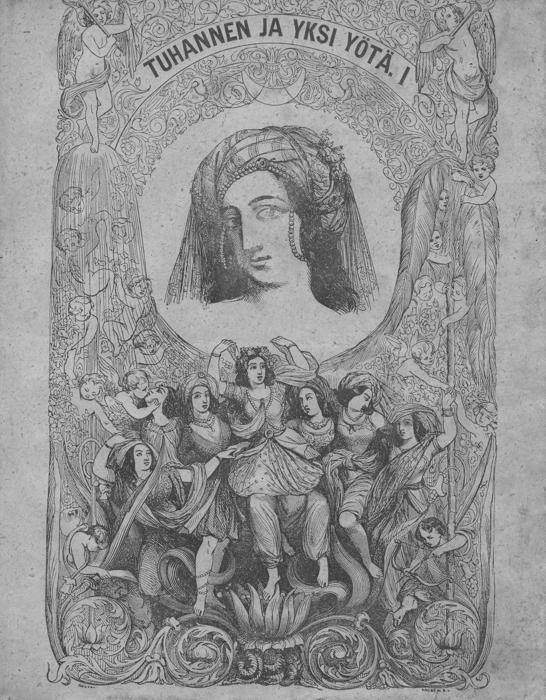 Finnish book cover from year 1878: Thousand an a one night